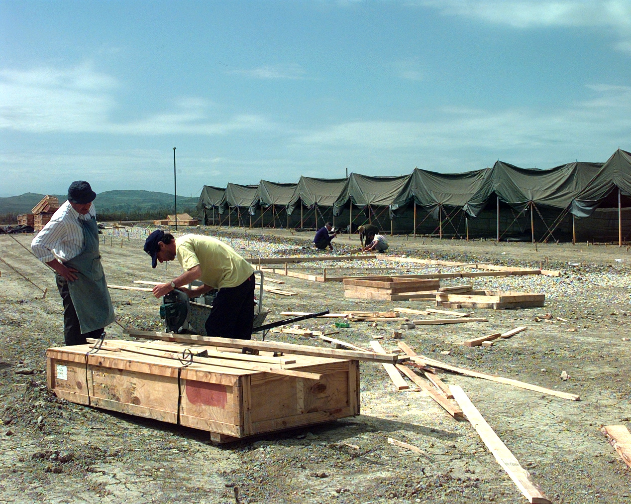 Two carpenters use a shipping crate as a work bench in cutting wood for tent floors at Camp Hope near Fier, Albania, on May 21, 1999, as part of Operation Sustain Hope. The Department of Defense is constructing Camp Hope to house up to 20,000 refugees. Sustain Hope is the U.S. effort to bring in food, water, medicine, relief supplies, and to establish camps for the refugees fleeing from the Former Republic of Yugoslavia.